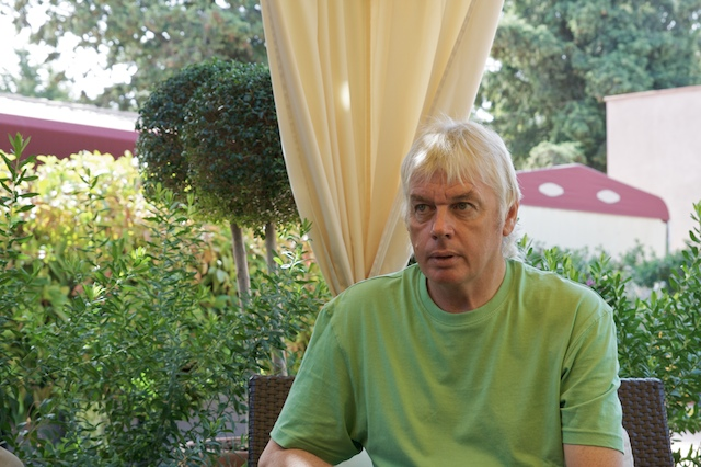 David Icke in 2008